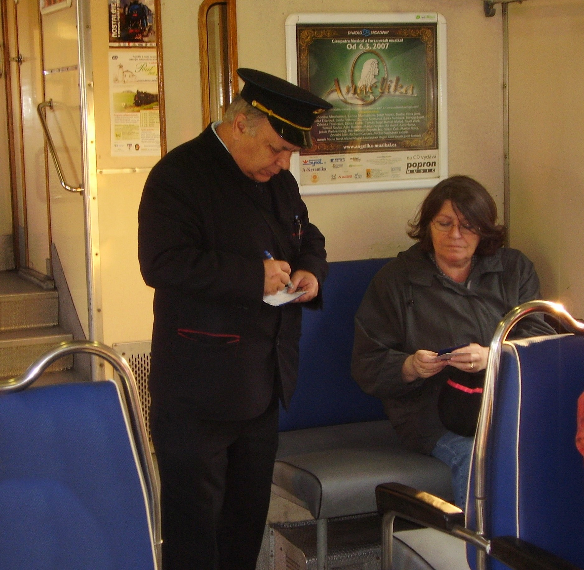 Conductor of ČD in train near Prague